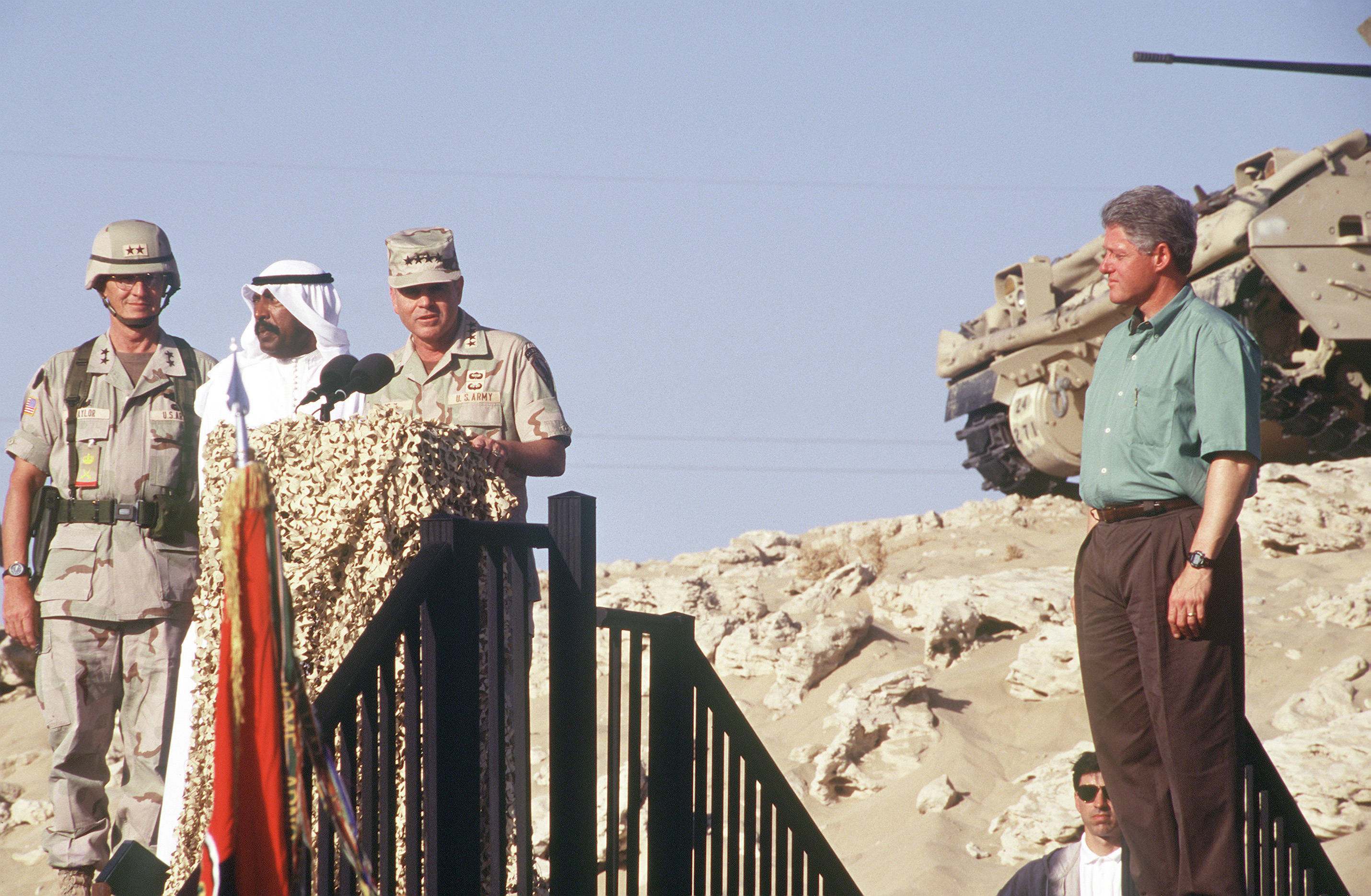 Gen. J.H. Binford Peay III., U.S. Central Command, speaks to American and Kuwaiti troops deployed at Tactical Assembly Area Liberty. Standing behind Gen. Peay and to his right is the Crown Prince of Kuwait and Maj. Gen. Taylor. President Clinton is standing to the far left of Gen. Peay.